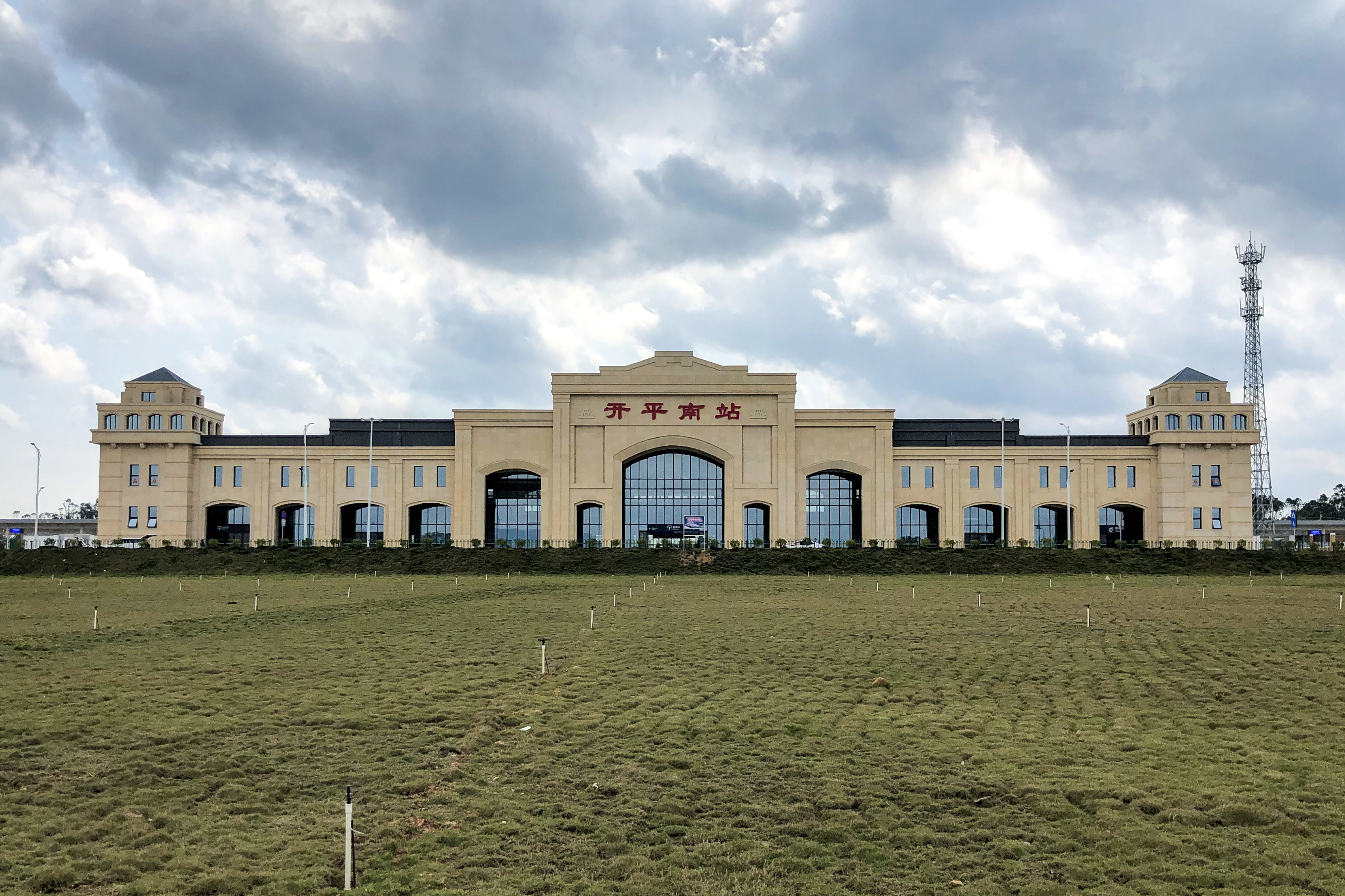 Inspired by the watchtowers.